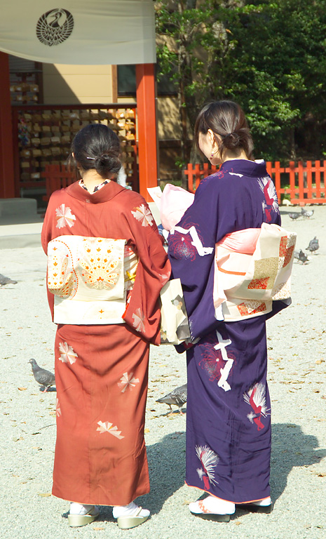 Girls read their fortunes at Tsurugaoka Hachiman-gu, a Shinto shrine in Kamakura, Kanagawa Prefecture, Japan. I took the photo.